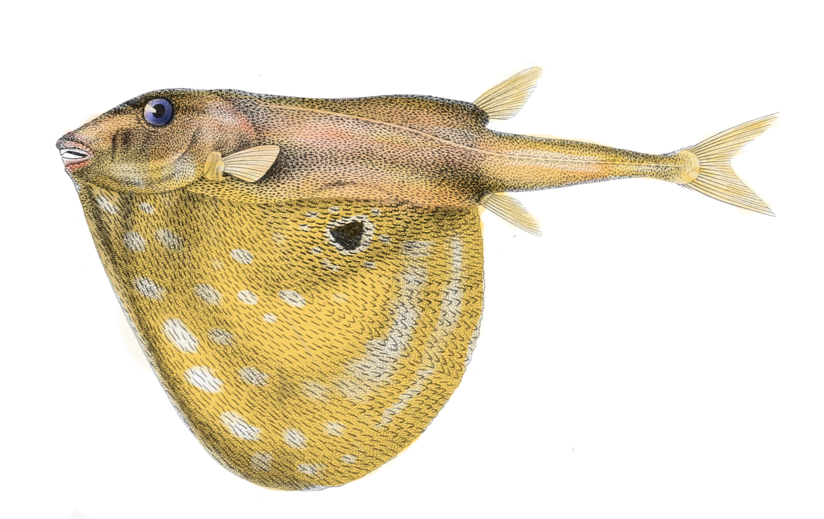 Triodon macropterus by Georges cuvier.